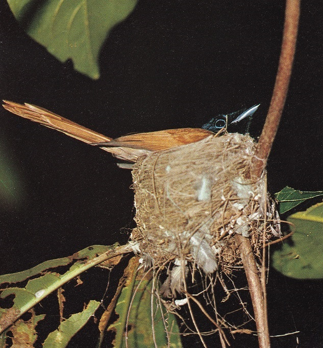 Nesting hen paradise flycatcher of La Digue (Terpsiphone corvina), Seychelles. The male bird has long streaming black tail feathers.